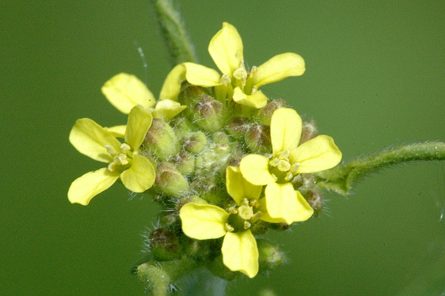 Hedge mustard, from Commanster, Belgian High Ardennes.